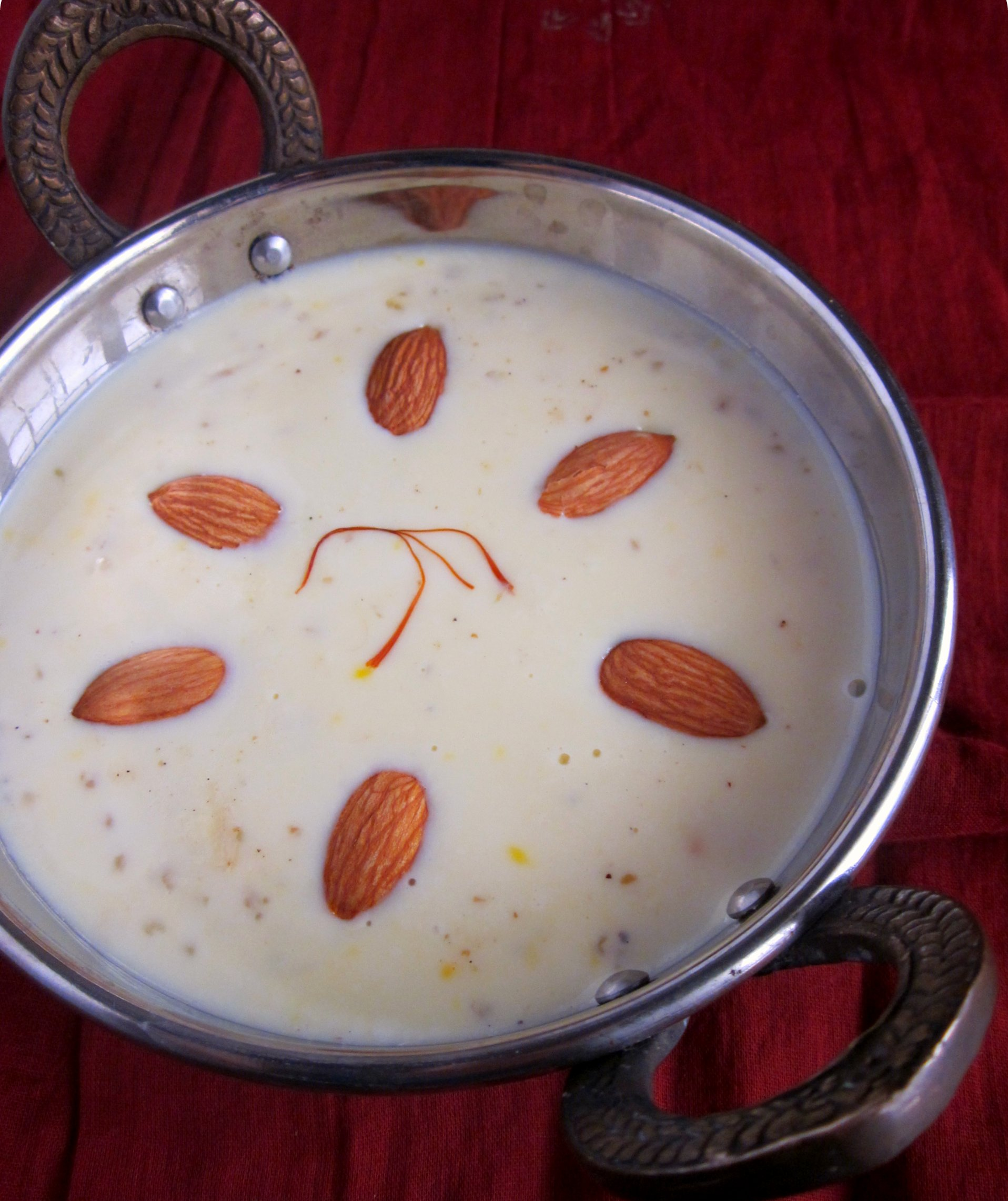 Kheer or payasam is typically made from rice. Instead of rice, other seasonal grains are also used. Above is cracked wheat payasam.